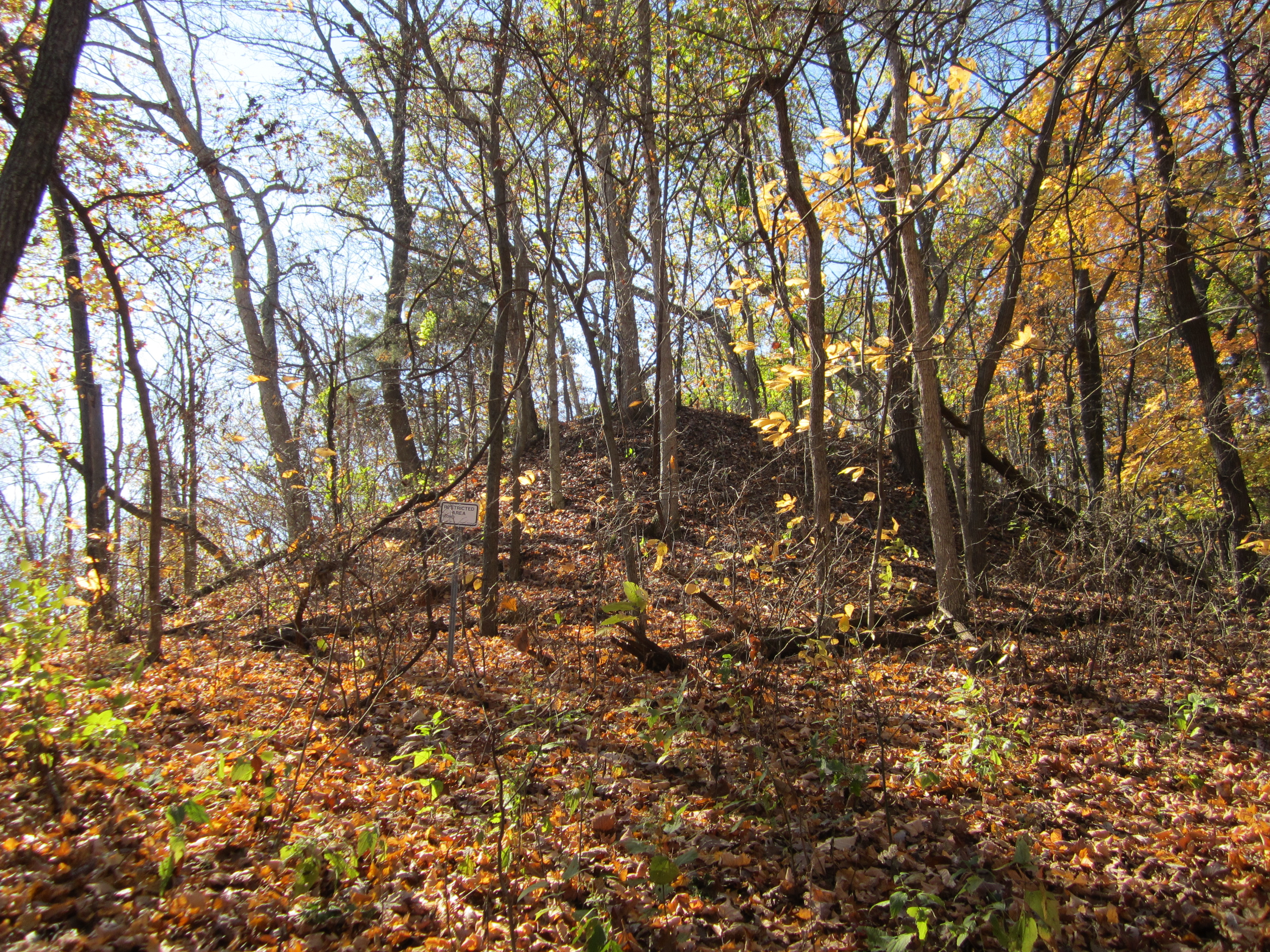 Naples-Russel Mound 8, also known as Zelph's Mound, in Pike County, Illinois